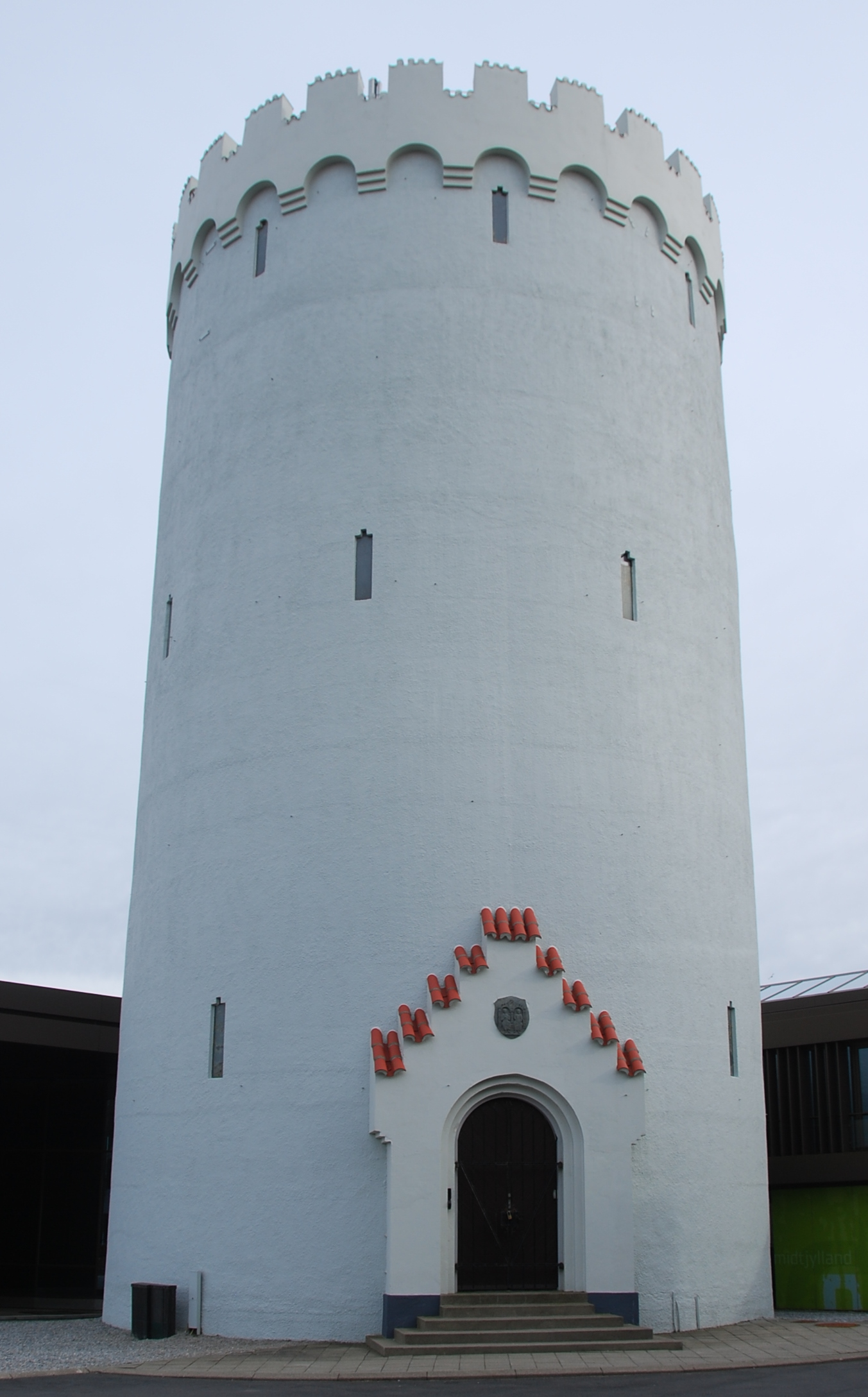 The water tower at Skottenborg, in Viborg, Denmark